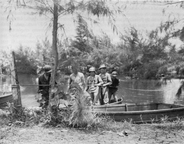 USA-P-Papua-p337 COLLAPSIBLE ASSAULT BOATS being used by 127th Infantrymen to cross the Siwori Creek. Note guide rope across the creek. milner